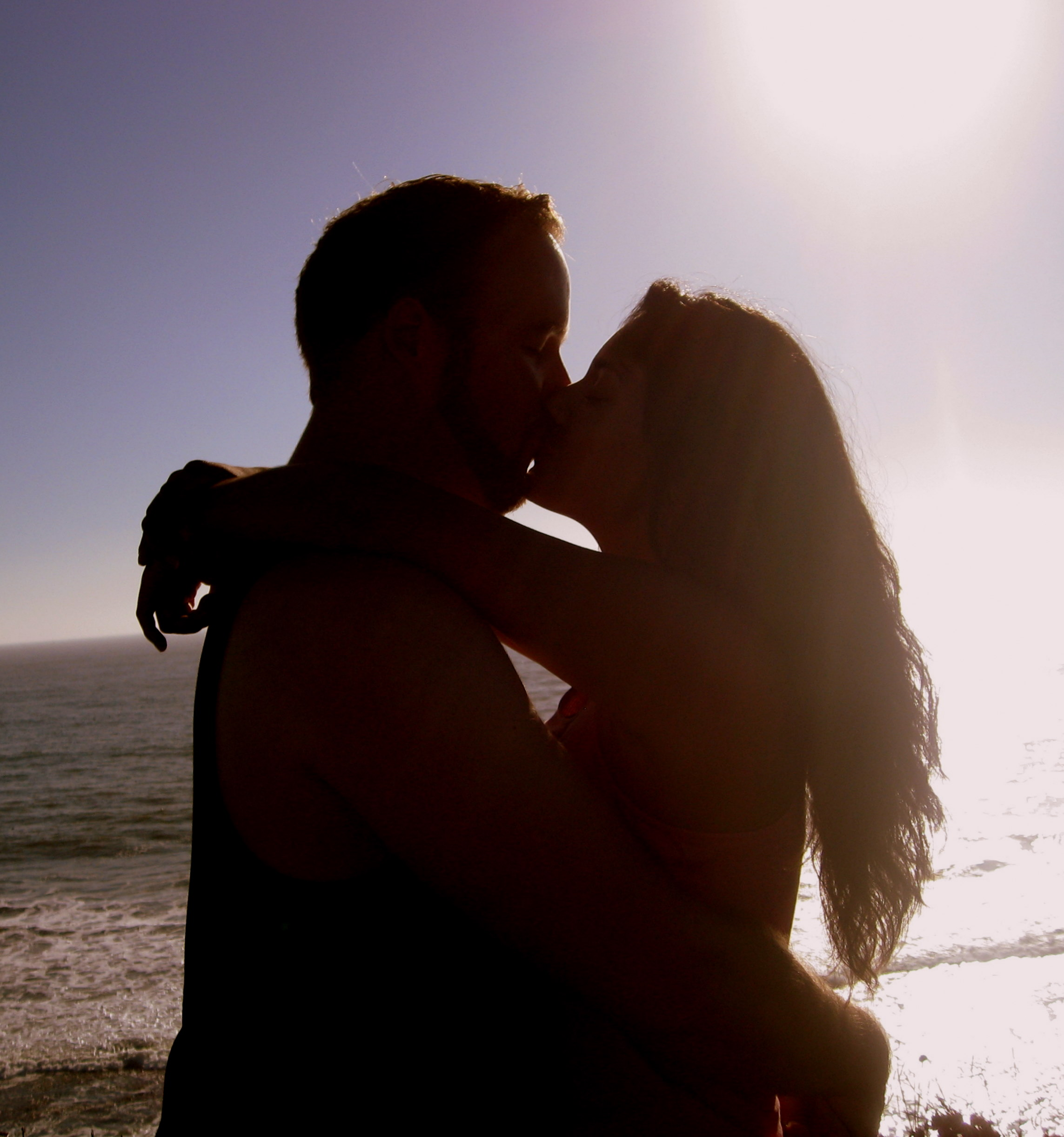 We believe in a thing called love!